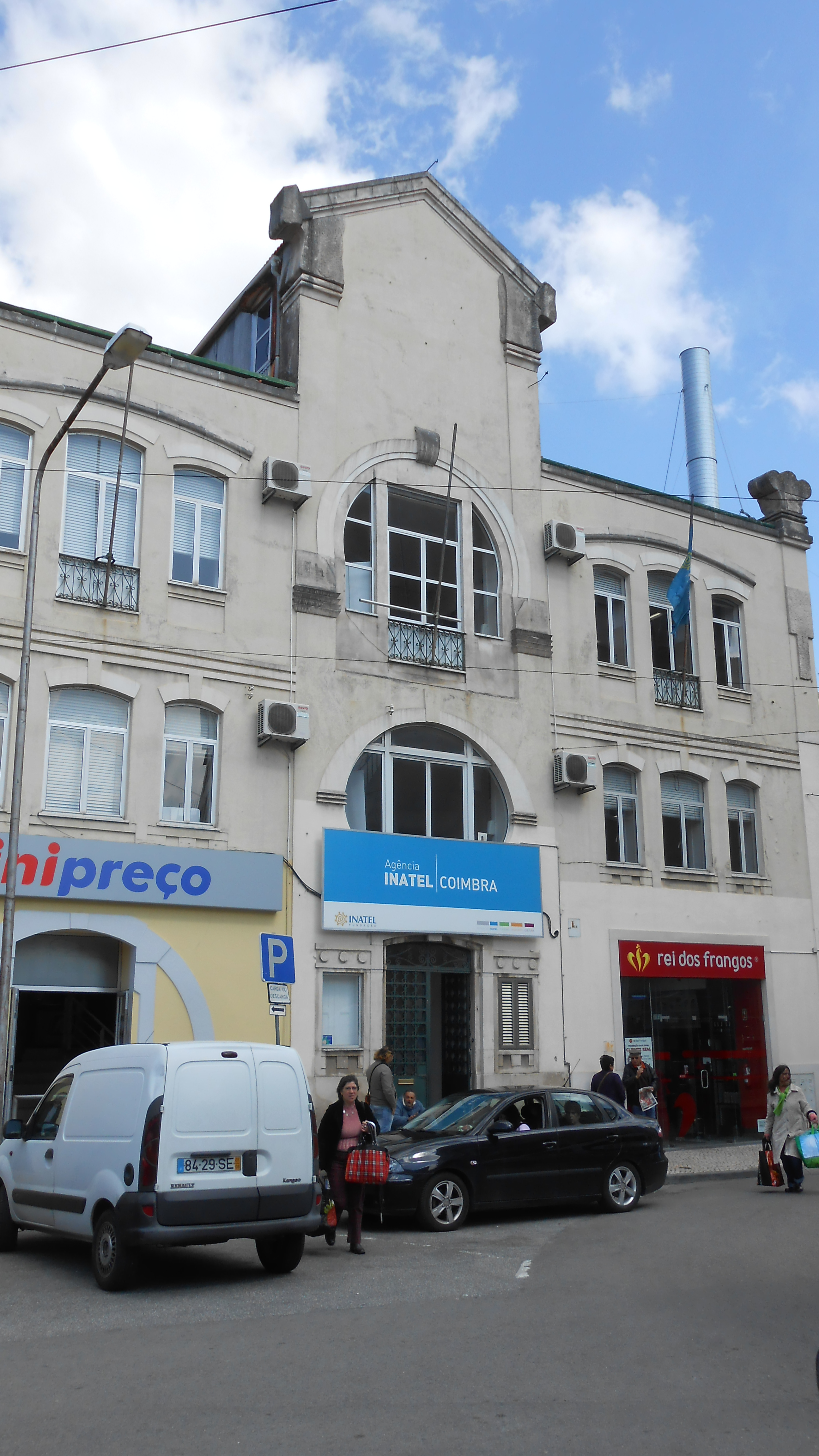 The INATEL agency in Coimbra, situated next to the Coimbra A train station